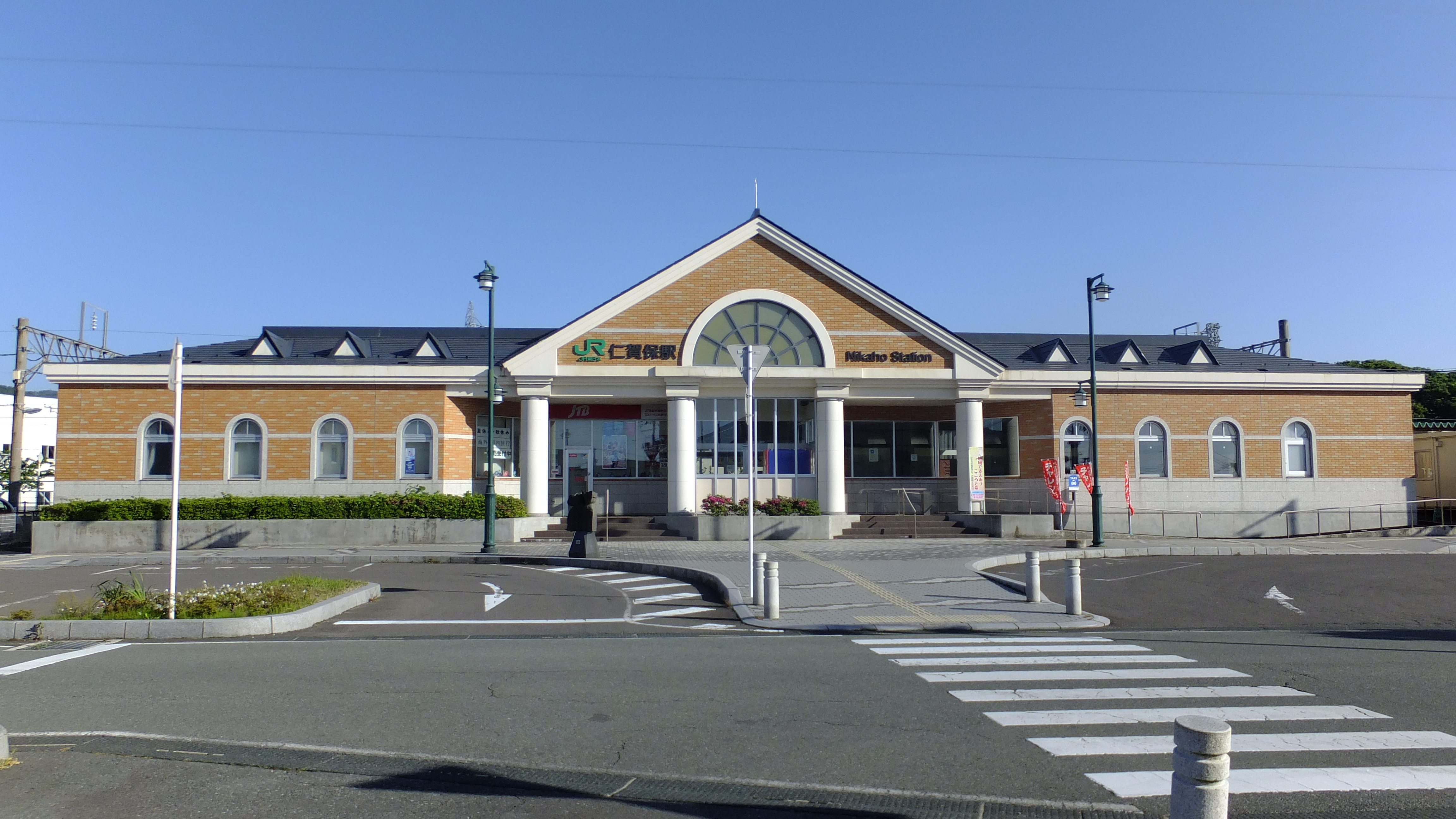 Nikaho Station on the Uetsu Main Line, in Nikaho City, Akita, Japan